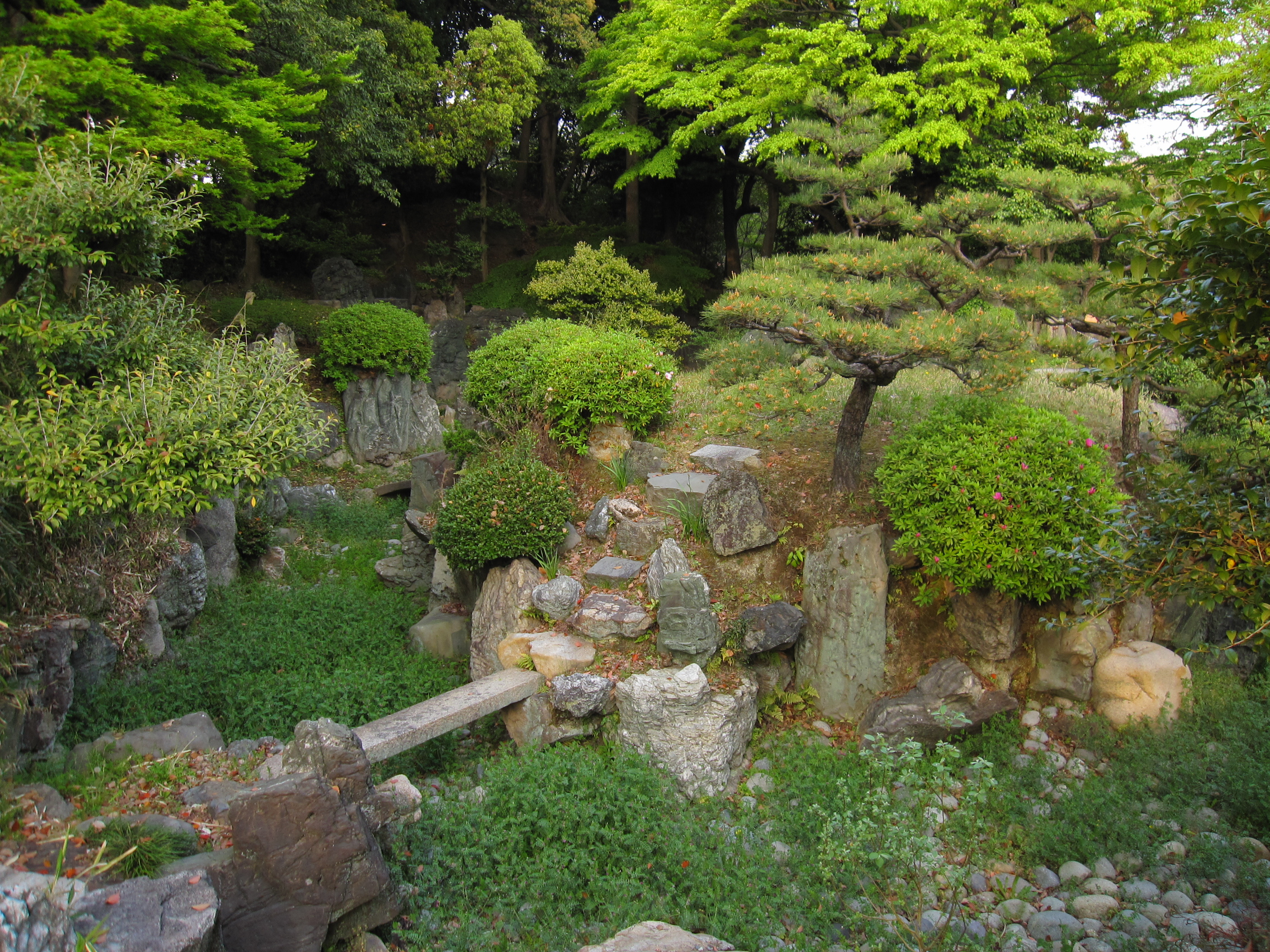 Ninomaru Garden at Nagoya Castle, close to the teahouse.